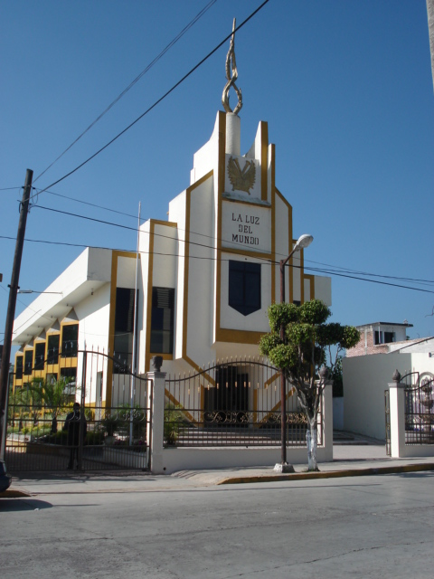 Temple of La Luz del Mundo in Coatepec, Veracruz, México.